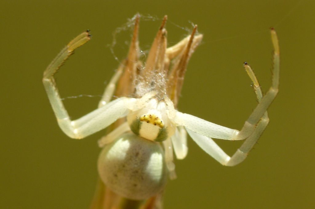 Misumena Vatia